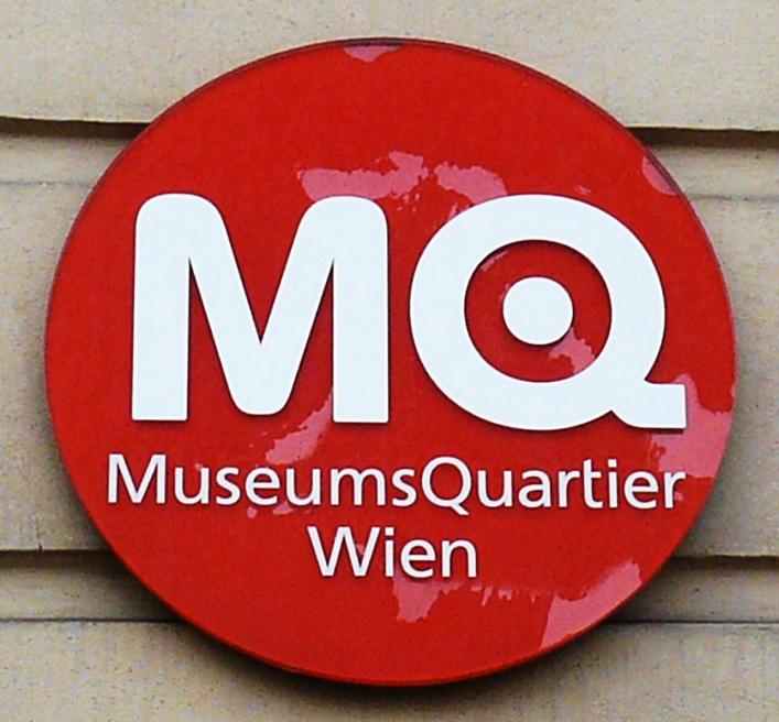 Logo of MuseumsQuartier in Vienna.